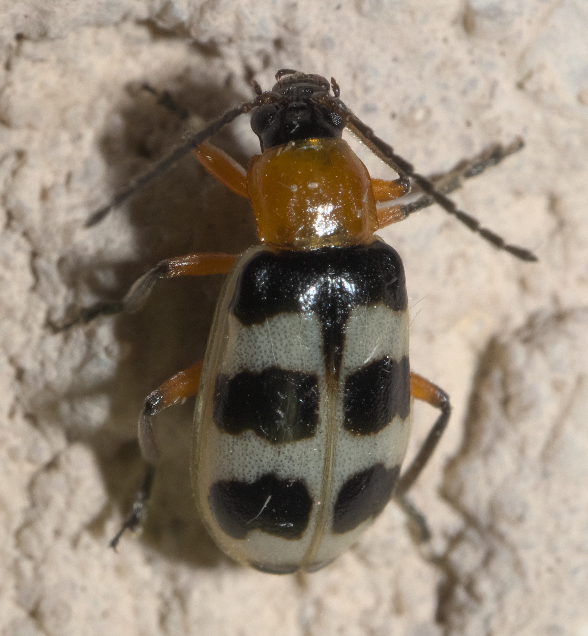 Paranapiacaba tricincta, Subfamily: Skeletonizing Leaf Beetles and Flea Beetles, Size: 6.3 mm, ID Confidence: 90